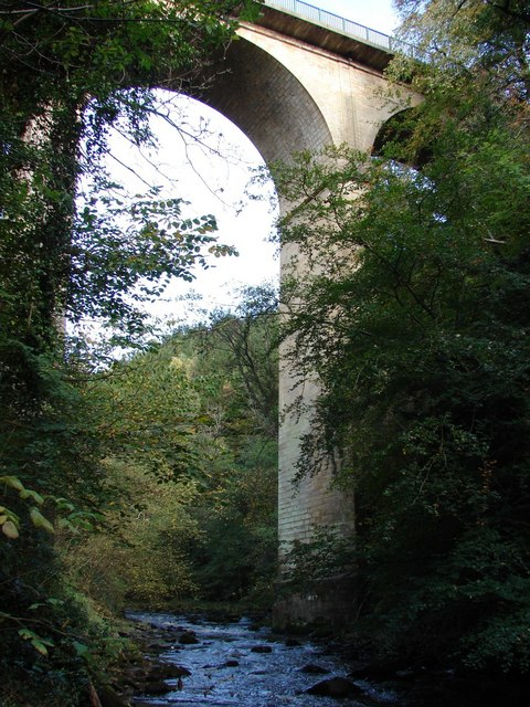 Cartland Bridge from the river below Rarely seen by most people despite being part of the main A73 road near Lanark. The bridge is surrounded by a deep gorge and also many trees & bushes.